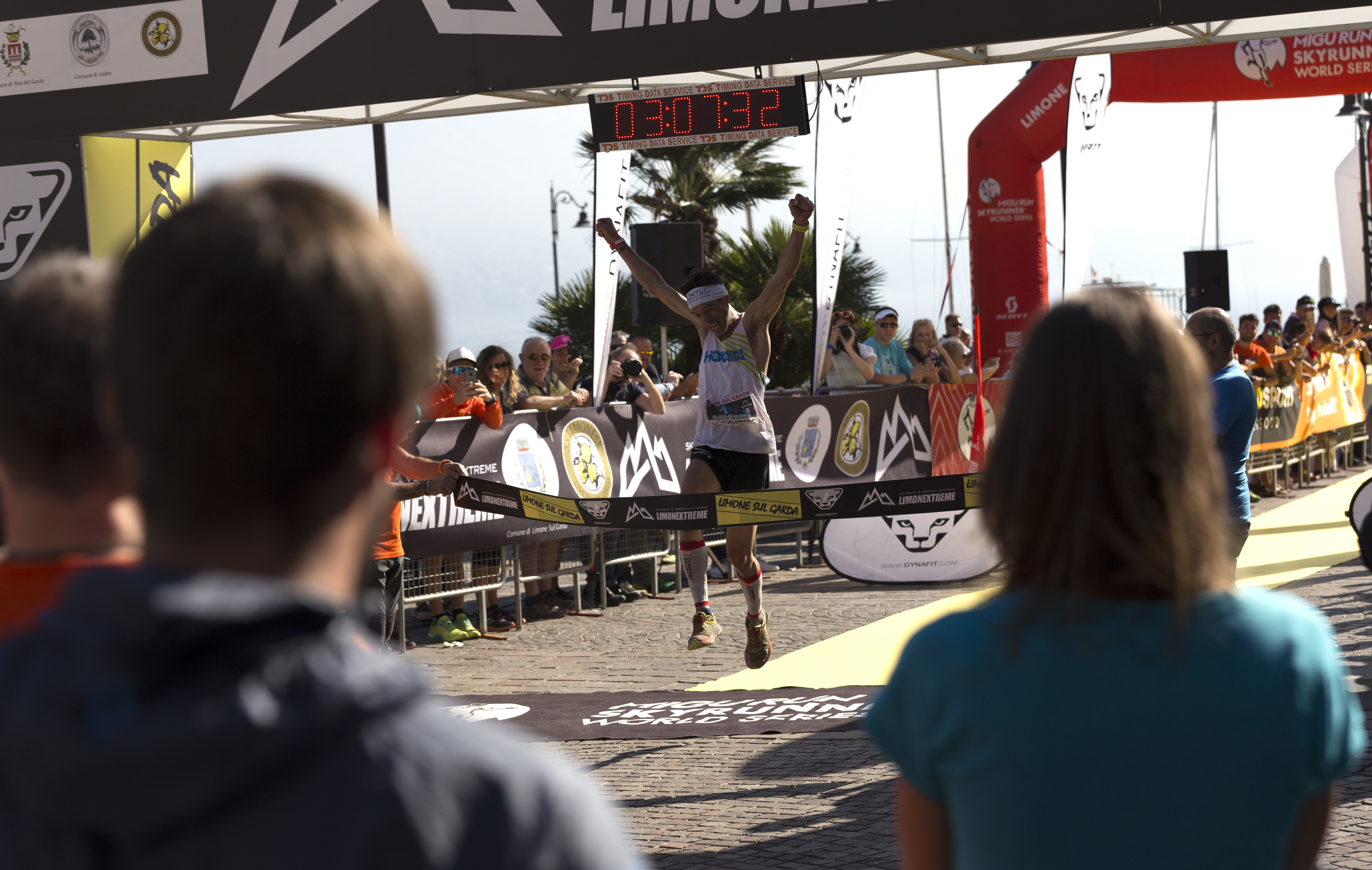 Marco De Gasperi win the 2017 Limone Extreme SkyRaceNK Skyrunning 2017